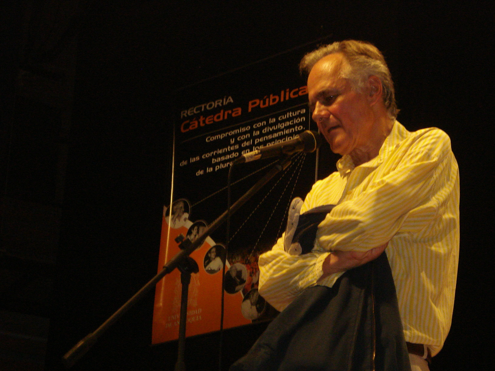 Fernando Vallejo colombian-mexican writer